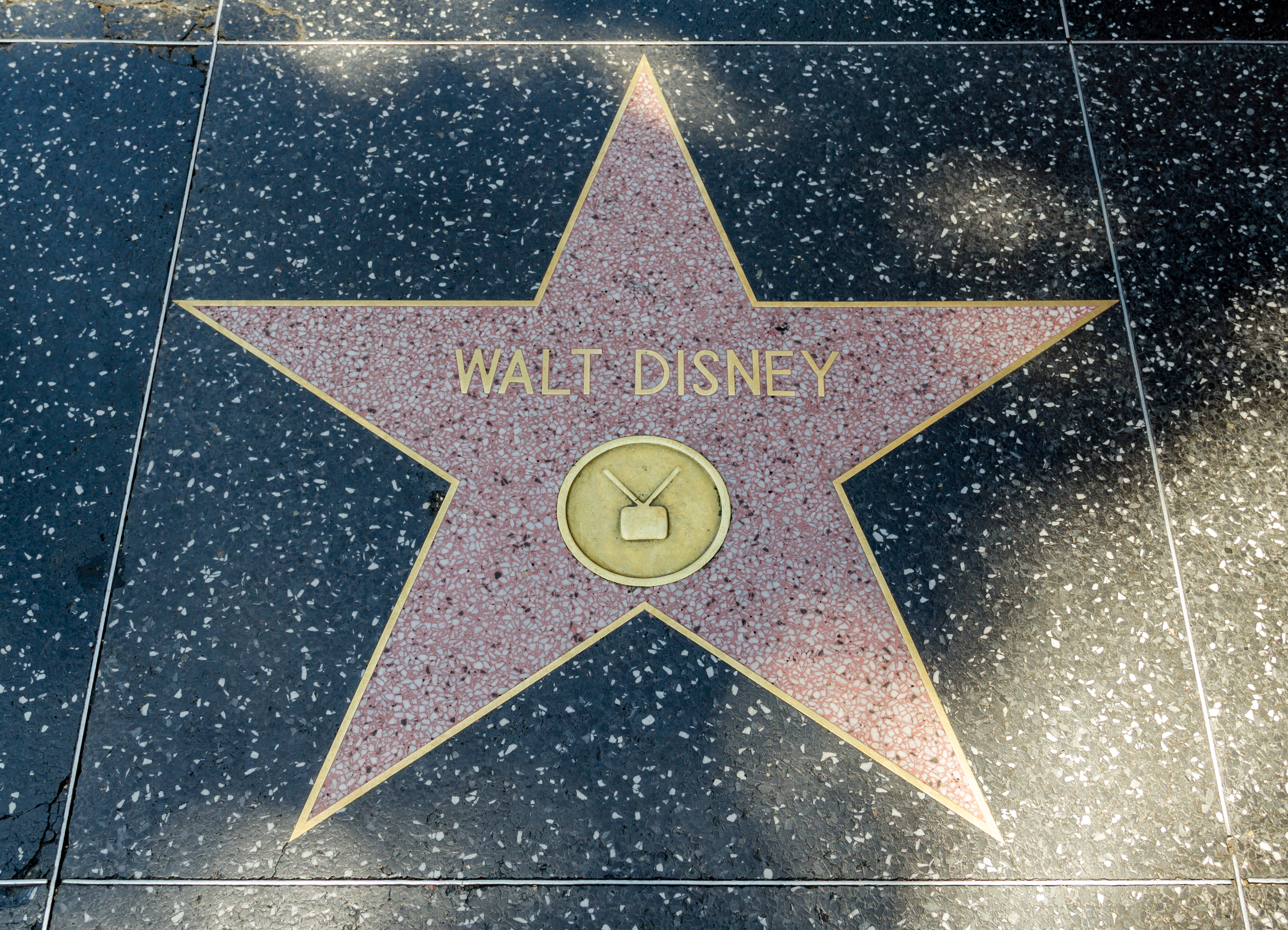 Star “Walt Disney” at the Hollywood Boulevard in Los Angeles, California, USA